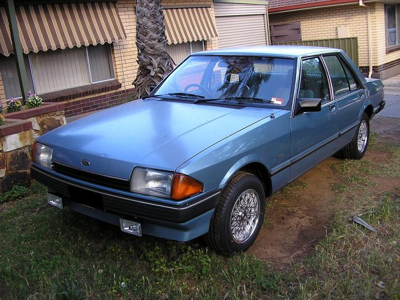 1982-1984 Ford XE Fairmont sedan.